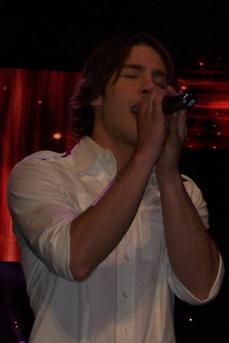 Cropped from original by riana_dzasta to focus on Dean Geyer